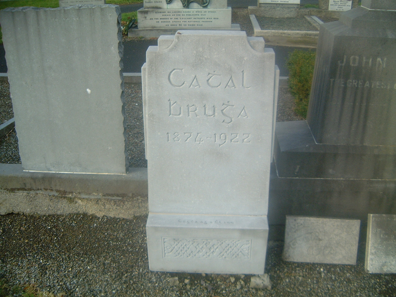 Gravestone Cathal Brugha 1874 - 1922 Taken by myself at Glasnevin Cemetery, Jan 2004.